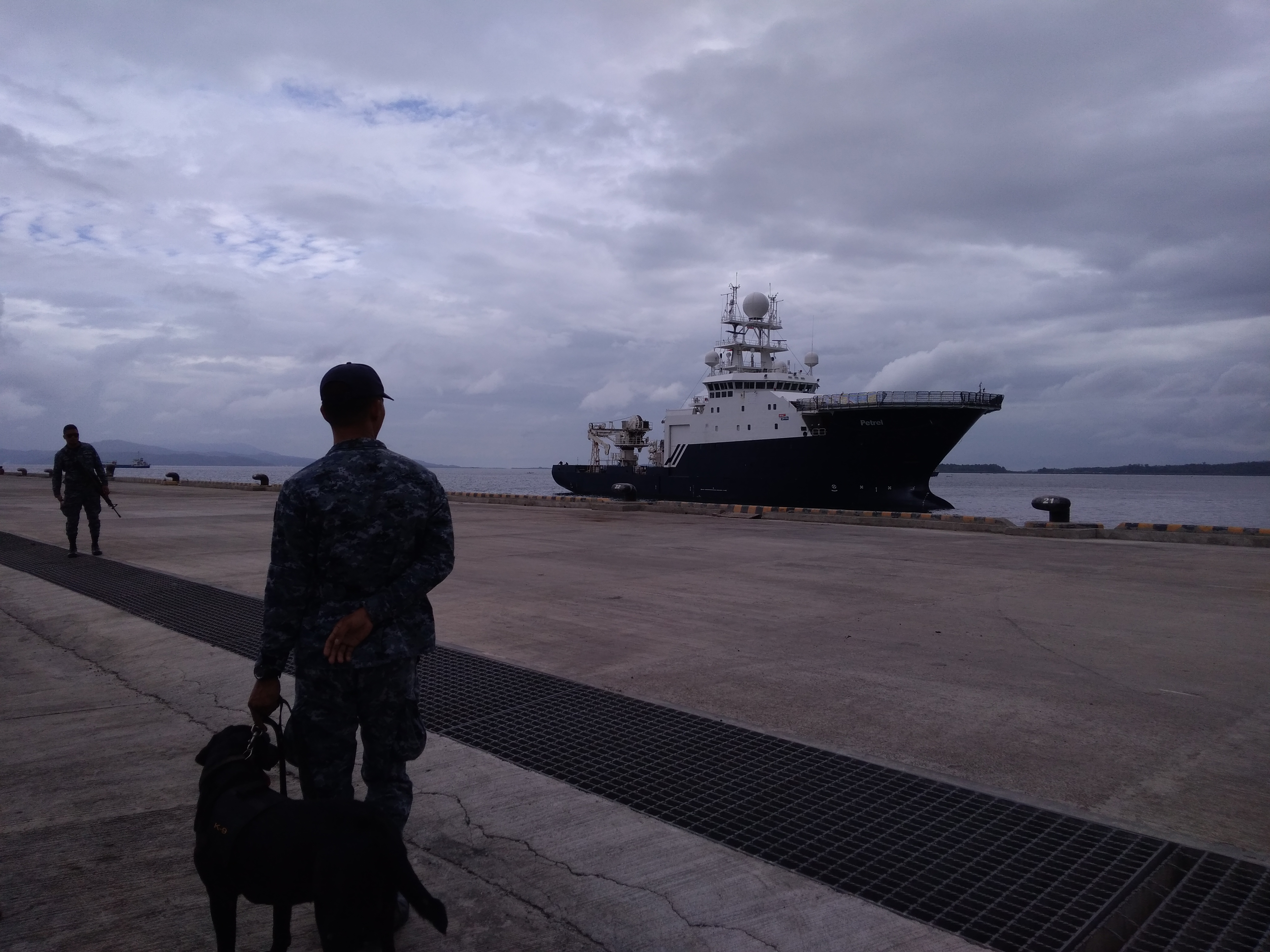 RV Petrel arrives in Surigao City on October 24, 2017, upon the invitation of the Battle of Surigao Strait Memorial Council. Coast Guard personnel are seen securing the berth.